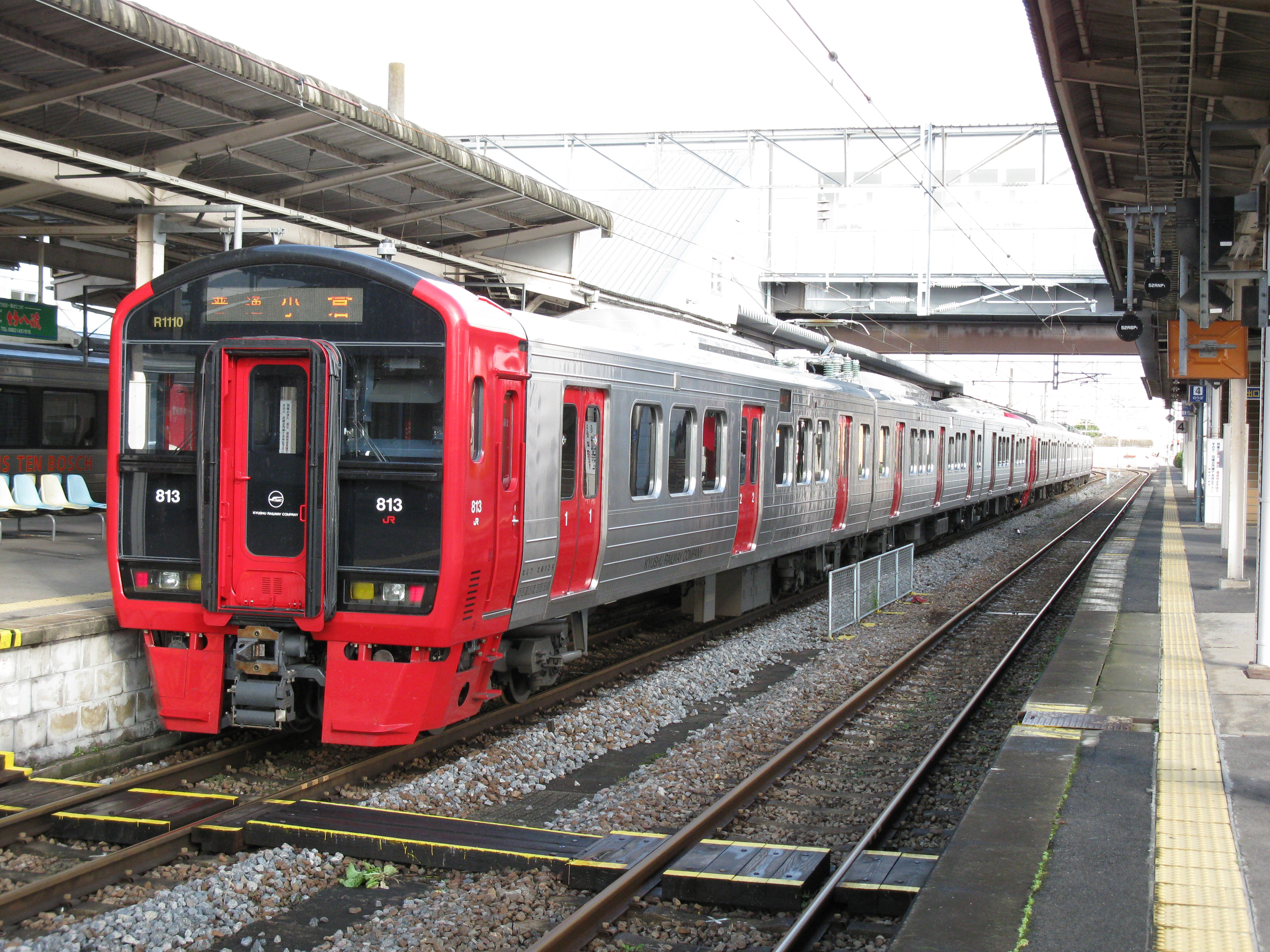 JR Kyushu 813-1100 series EMU set R1110